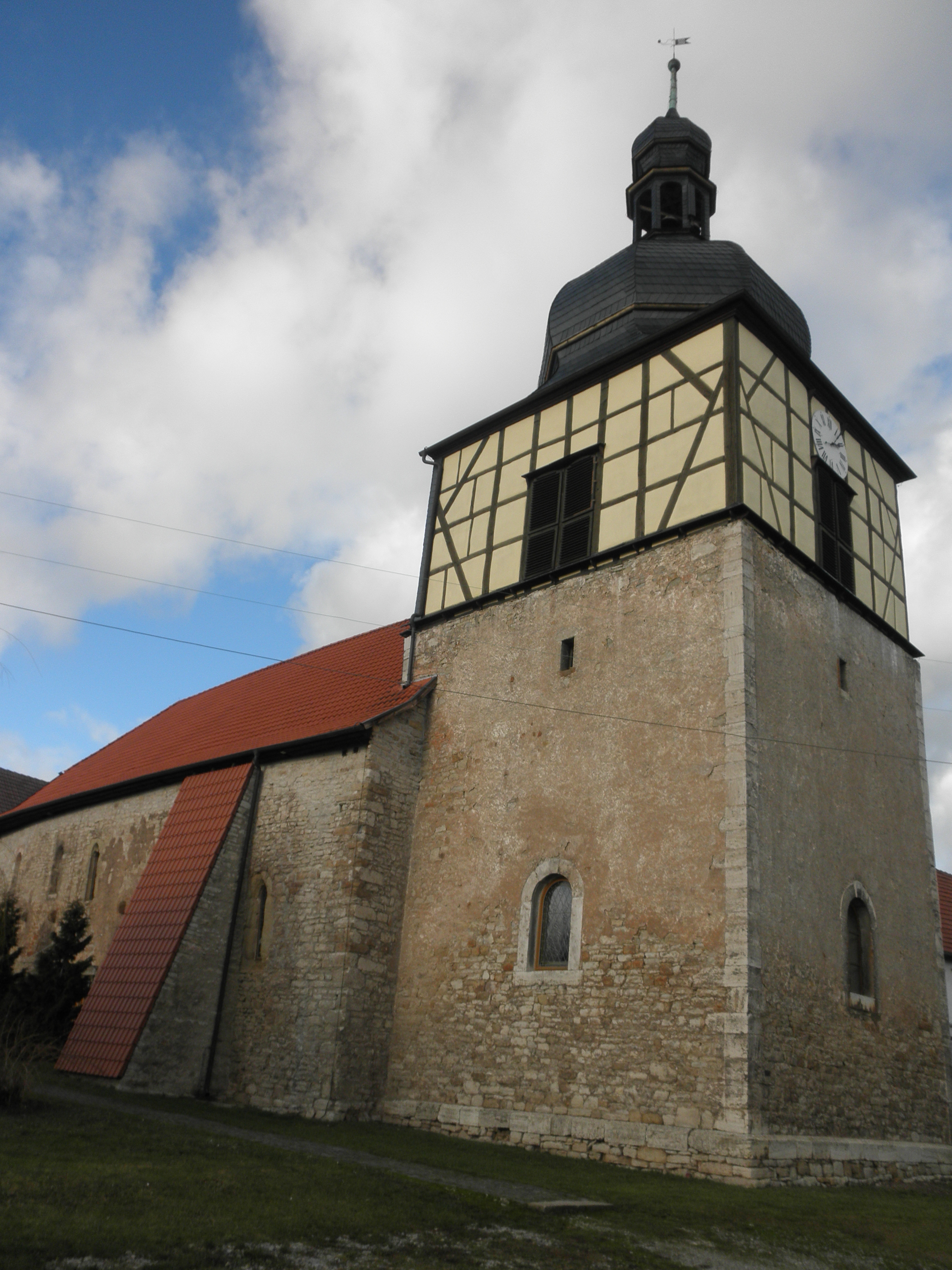 Church in Großmelra in Thuringia